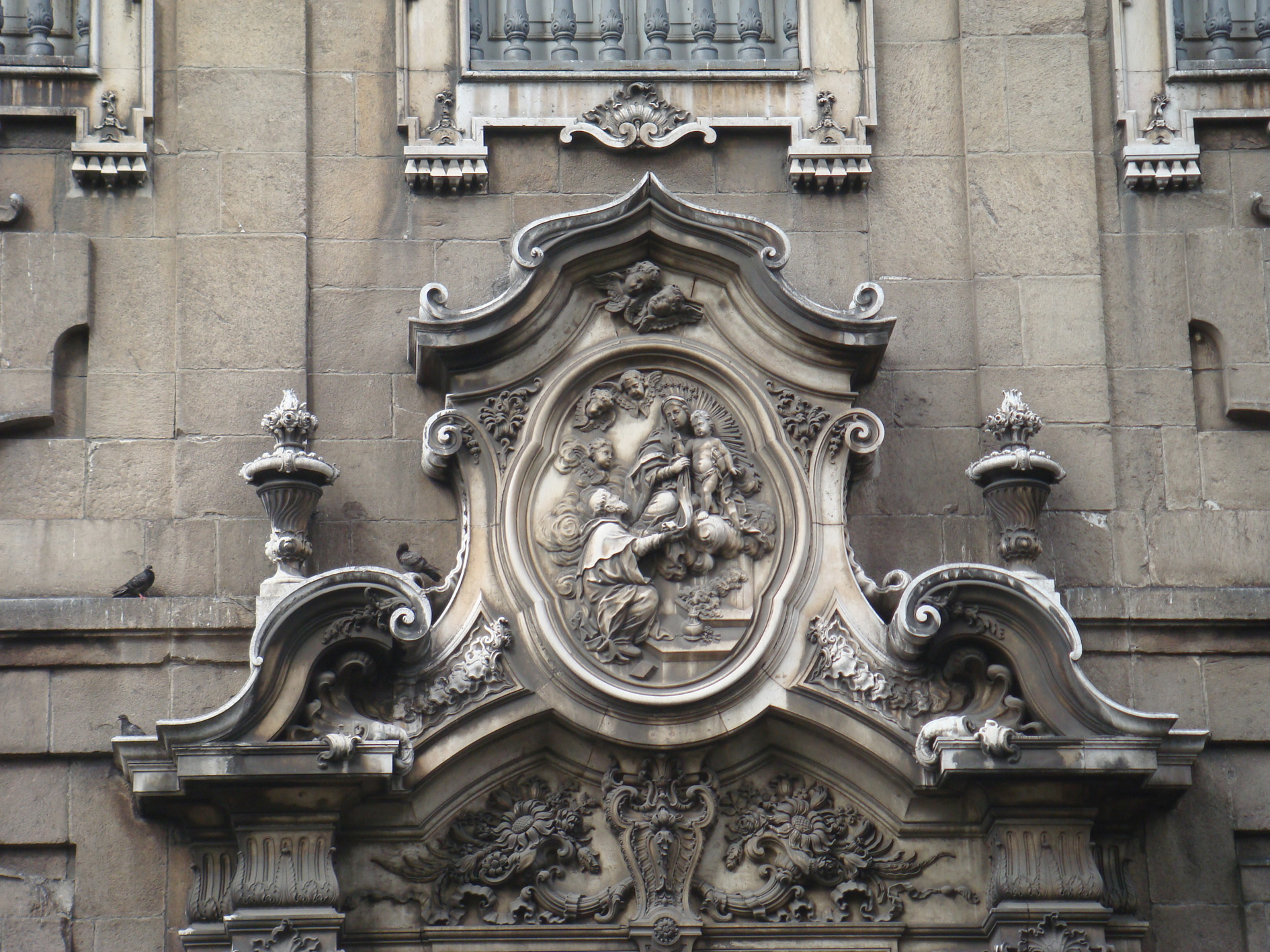 Portal (1761) of the Church of Terceiros do Carmo in Rio de Janeiro, Brazil.